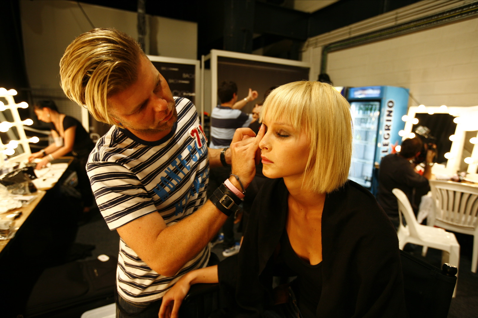 Make-up artist backstage at the Fashion Assassin show, Spring/Summer 2007 Australia Fashion Week